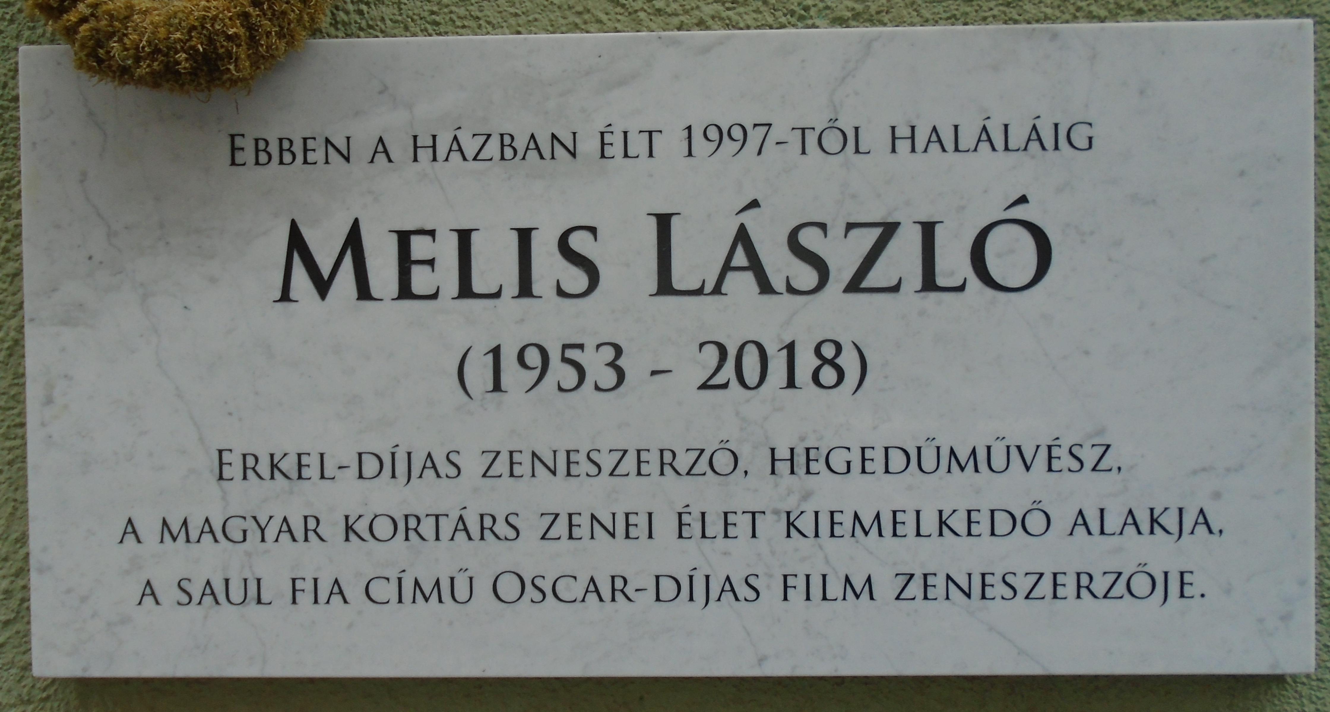 László Melis's commemorative plaque in Budapest District VIII.